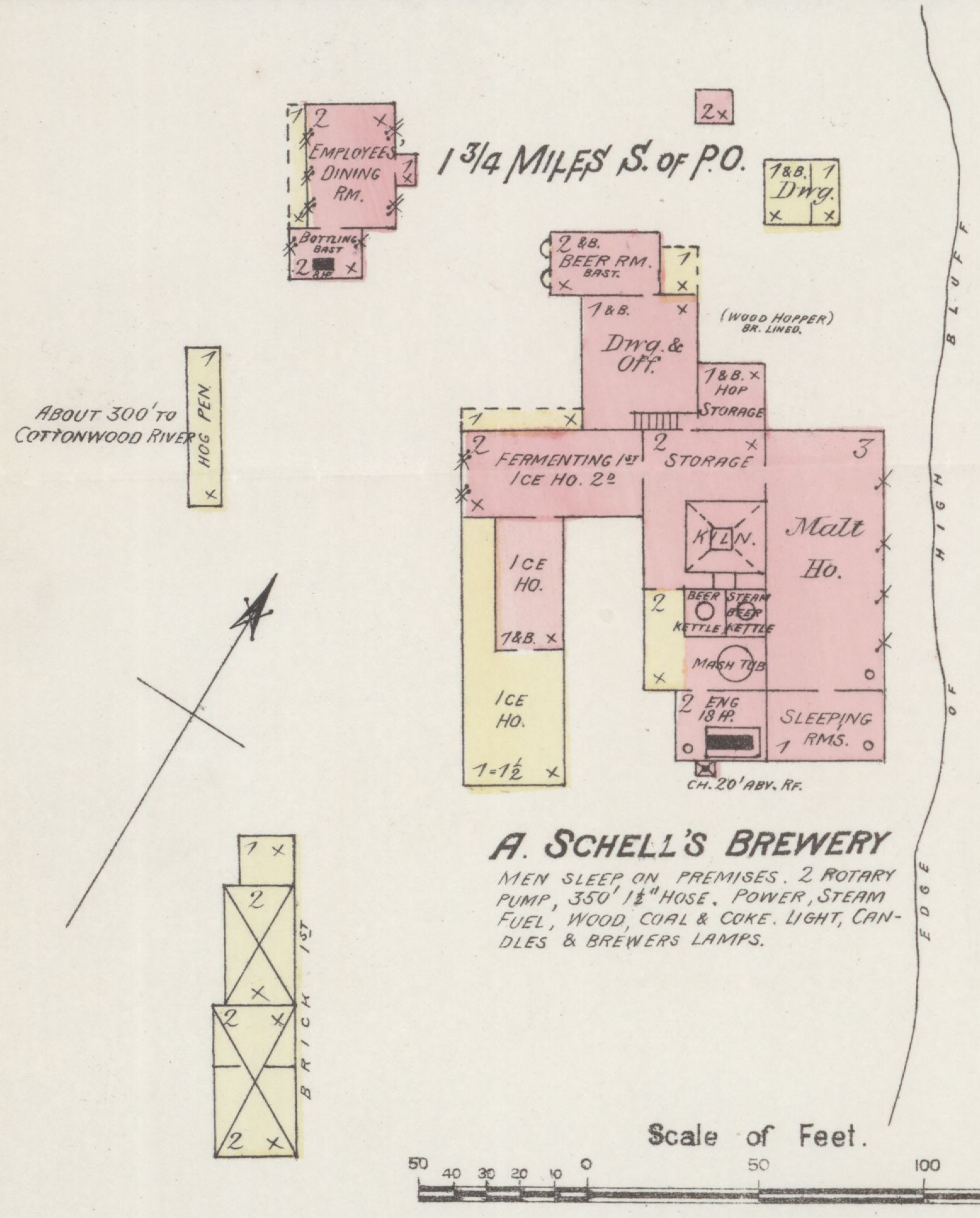 Nov 1884. 6 Sheet(s).